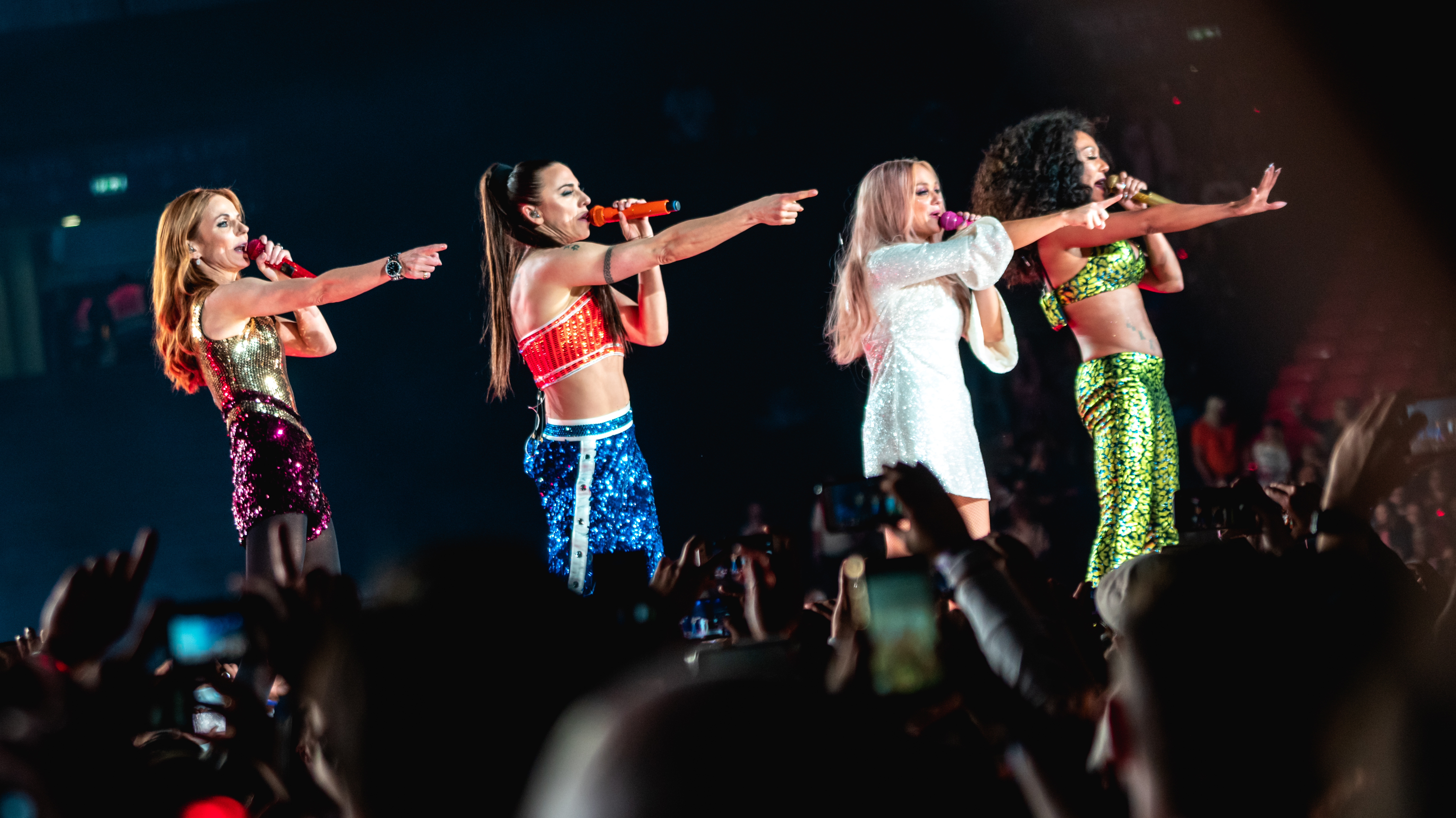 SpiceGirlWembley150619-122